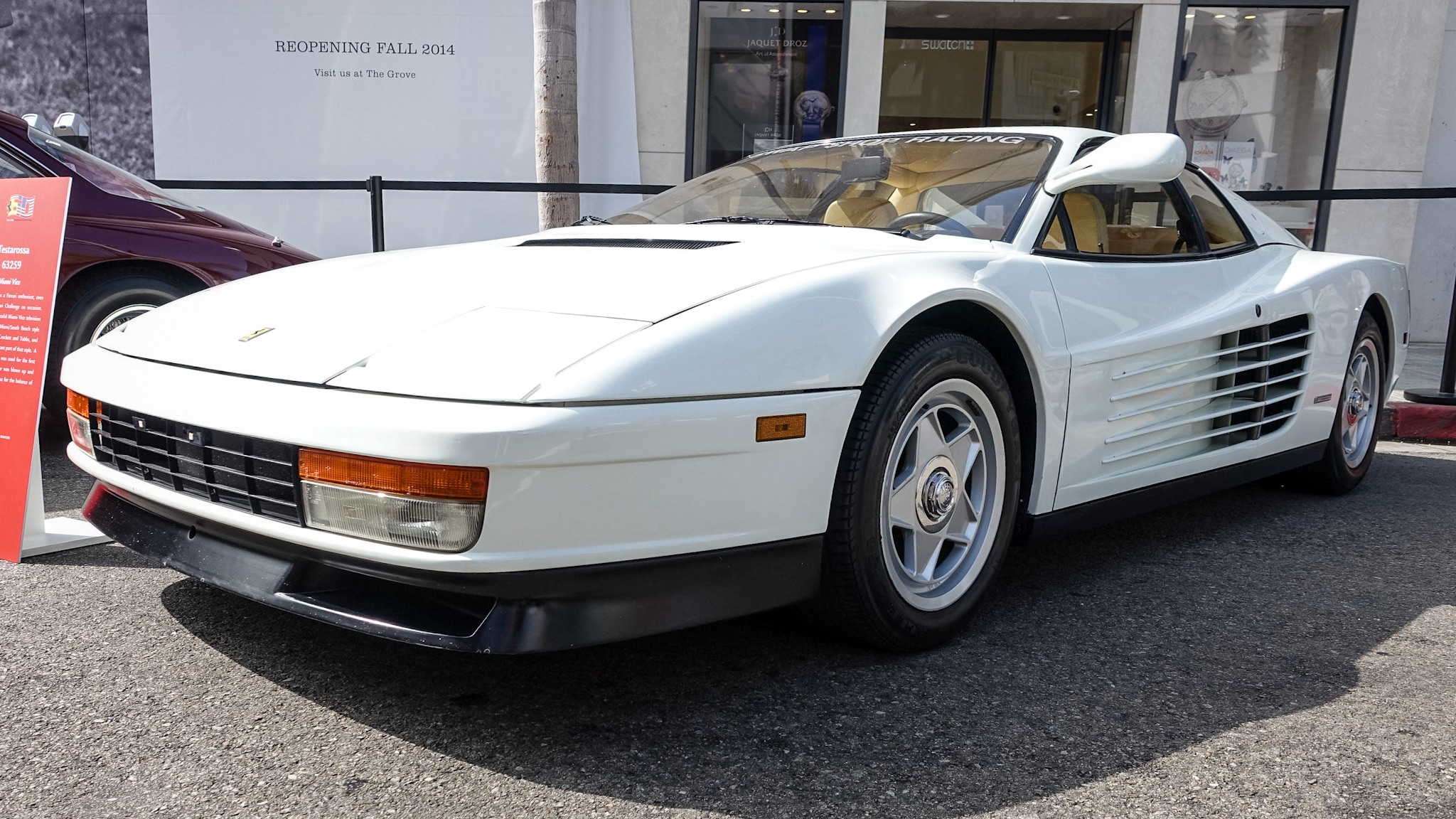 Michael Mann was a Ferrari enthusiast, even racing in the Ferrari Challenge on occasion. For the hugely successful Miami Vice television show he defined a Miami/South Beach style for his "MTV cops" Crockett and Tubbs, and Ferraris were an important part of that style. A replica Daytona Spyder was used for the first two seasons, but the car was blown up and replaced by this Testarossa for the balance of the series.